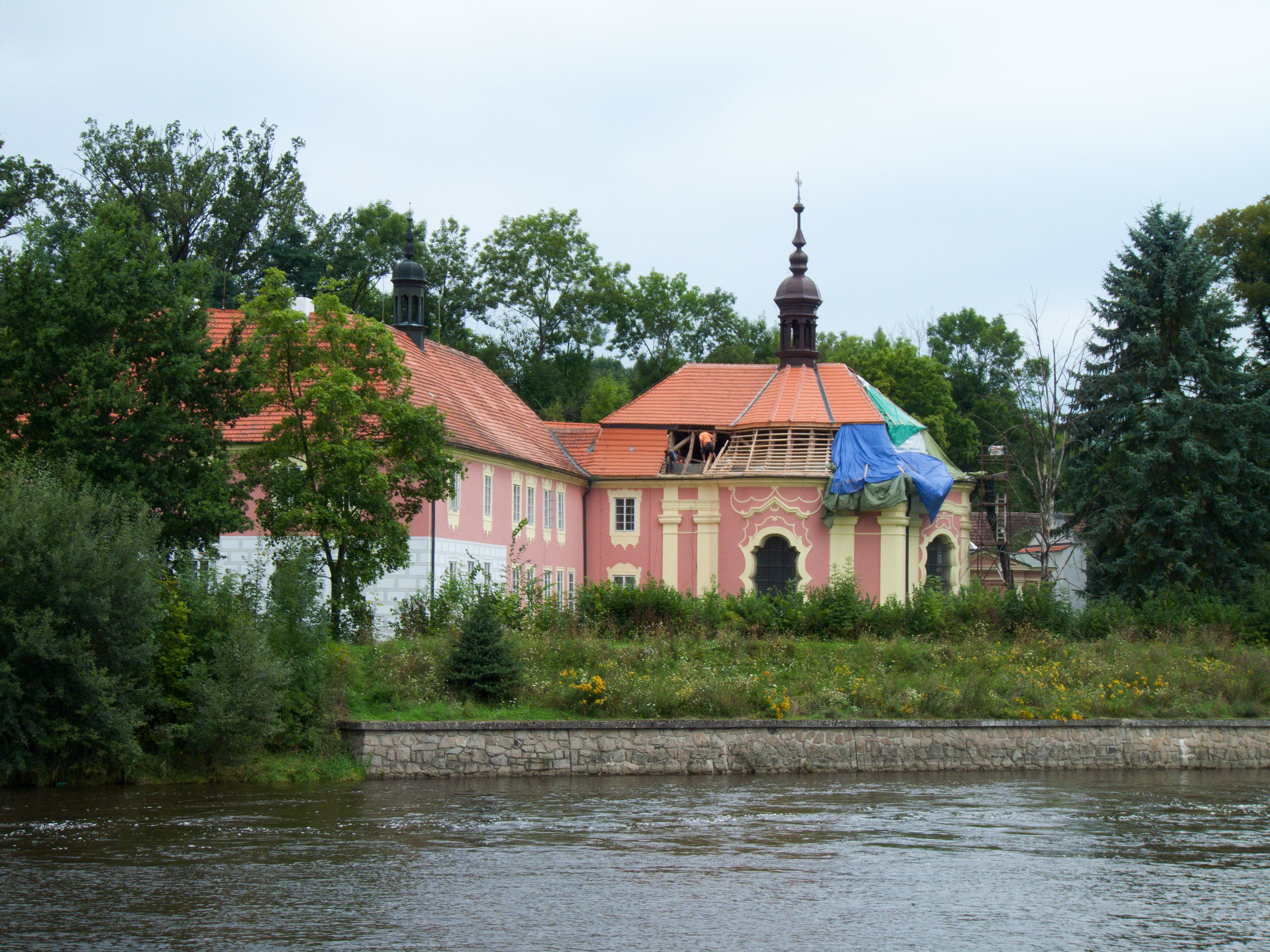 Chateau in the village of Koloděje nad Lužnicí, České Budějovice District, Czech Republic as seen over the Lužnice river, under reconstruction in August 2010